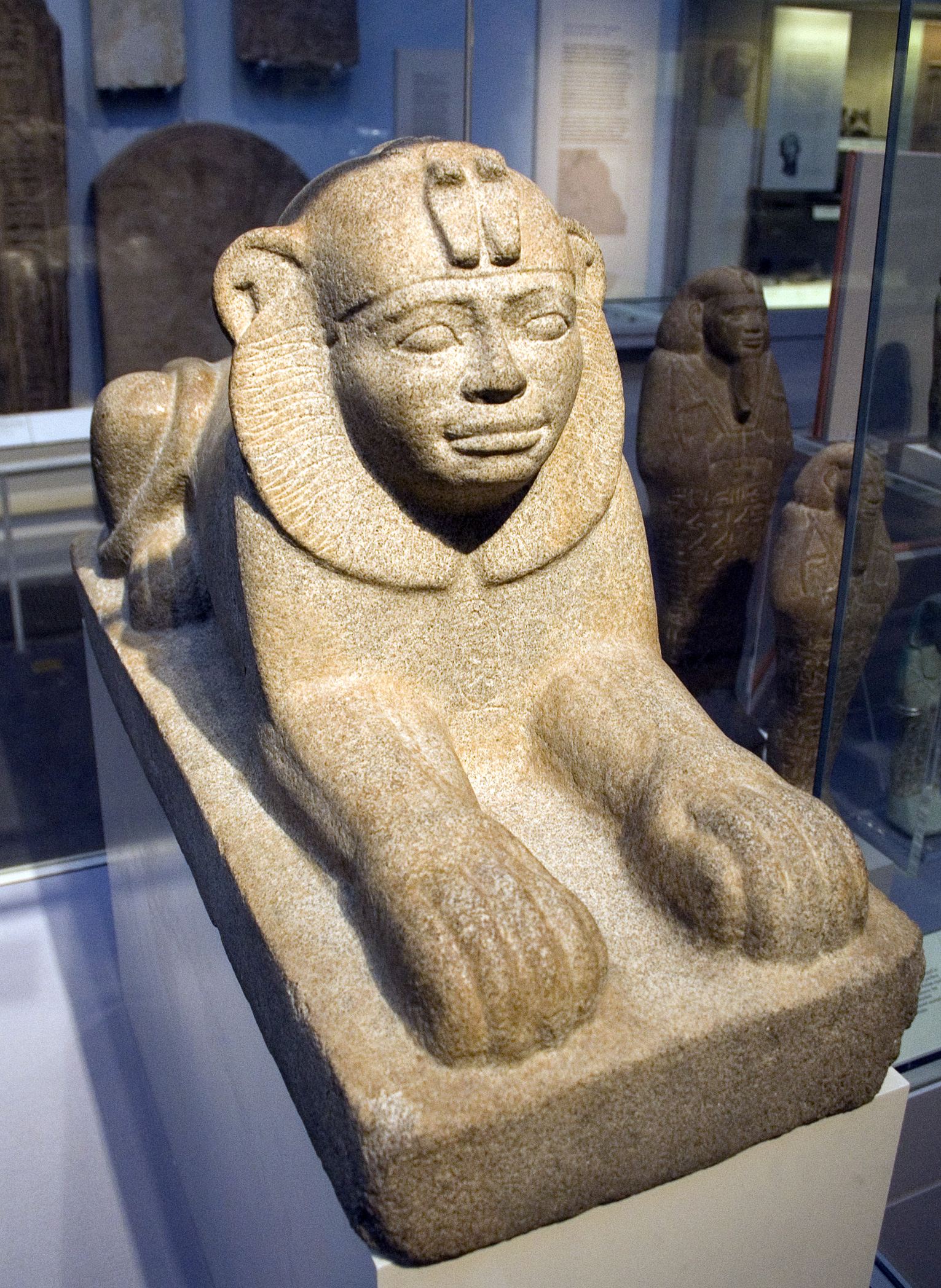 Sphinx of Taharqo, British Museum room 65